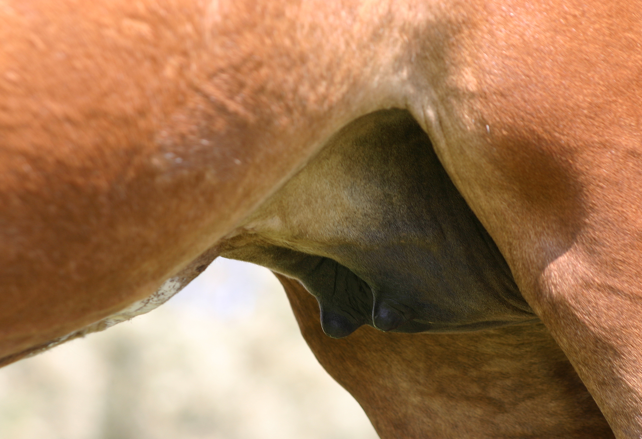 Udder of a chestnut Finnhorse that has foaled ca. 3 months earlier and continues to nurse.